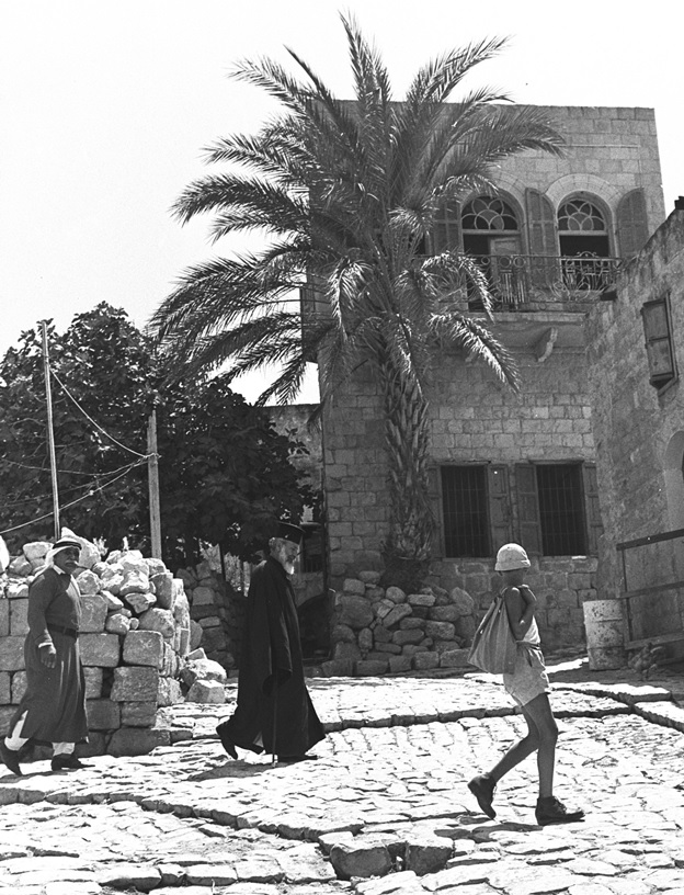 The village priest walks through the streets of the Arab village, Kfar Yassif, in the western Galilee. הכומר של כפר יאסיף הולך ברחובות הכפר המצוי בגליל המערבי